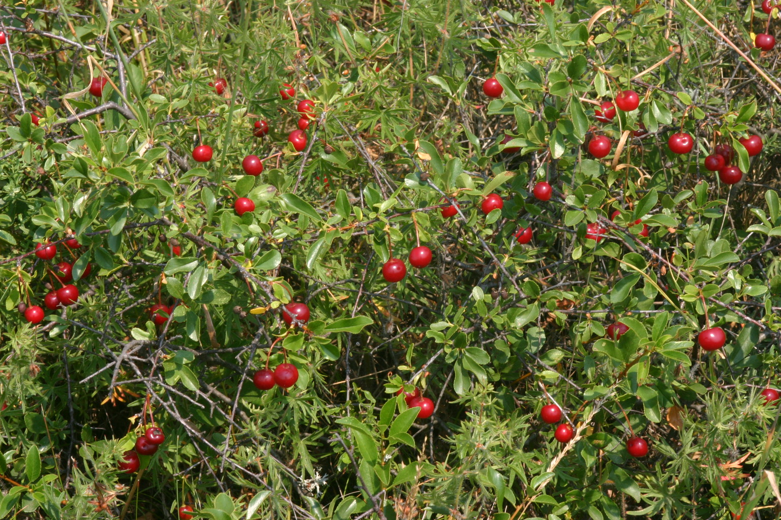 Prunus fruticosa